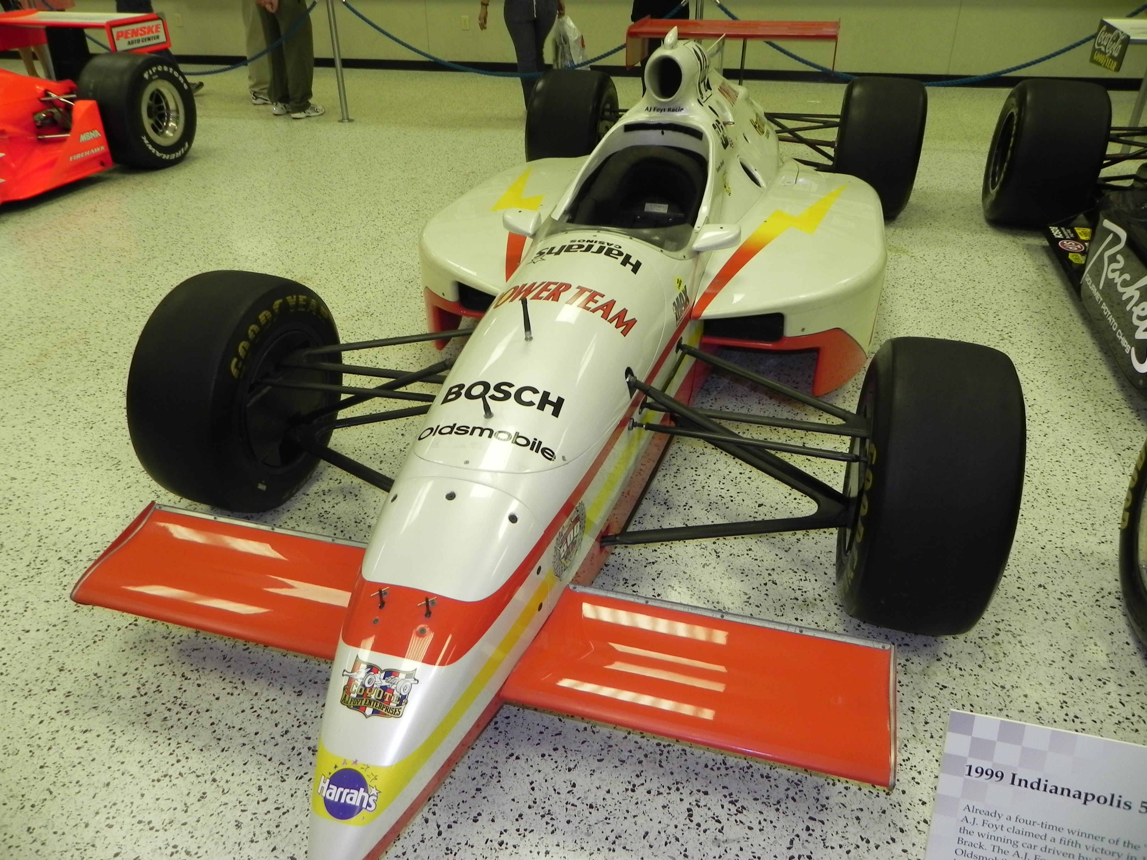 Image of the winning car of the 1999 Indianapolis 500 (Kenny Bräck). Photo was taken at the Indianapolis Motor Speedway Hall of Fame Museum, during the month of May 2011, at the 100th Anniversary "Ultimate Indianapolis 500 Winning Car Collection."